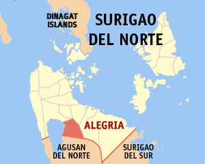 Map of the Surigao del Norte showing the location of Alegria